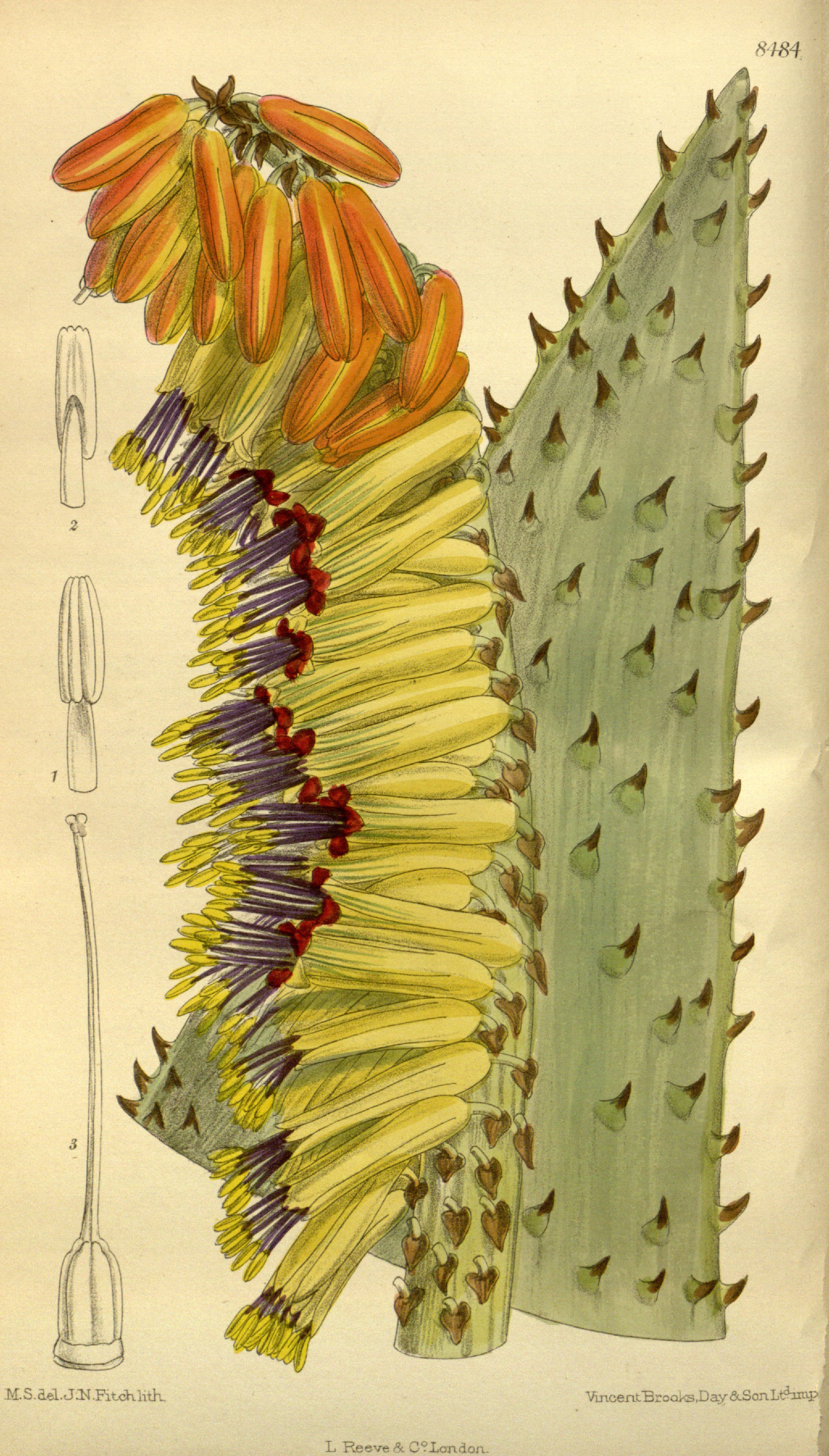 Aloe marlothii, Xanthorrhoeaceae